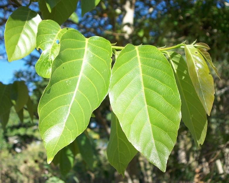 Young leaves of Bridelia micrantha from Amanzimtoti, South Africa